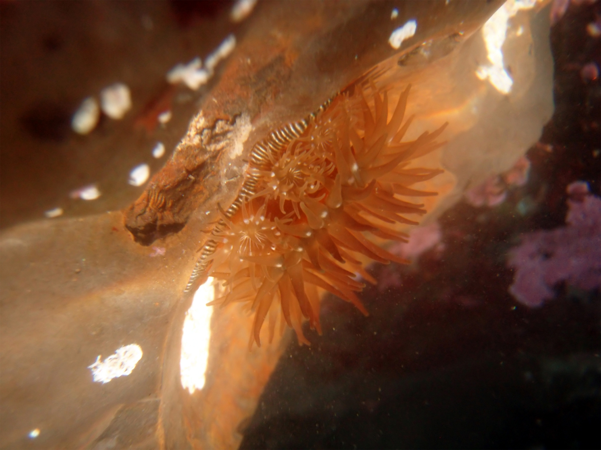 Asexual reproduction of sea anemone. Sea anemone splits off sections of it basal discs, which then develop into new animals. At the image you could see a sea anemone with at least four "kids". Eventually These "kids" would get off of the base of the main anemone to become individual units.